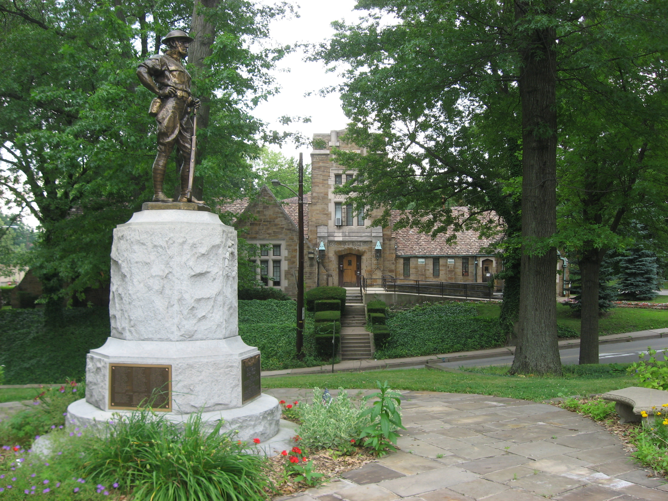 Front of the municipal building of Edgewood, a borough on the southeastern edge of Pittsburgh, Pennsylvania, United States. Taken from small nearby park with 1920s-era memorial to local veterans of the Great War in foreground. Borough building address 2 Race Street, located at the Swissvale Avenue intersection.